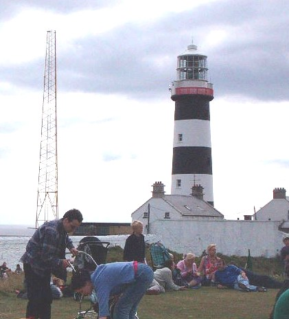 Lighthouse at Old Head of Kinsale, County Cork, Ireland with picnickers protesting at denial of public access.